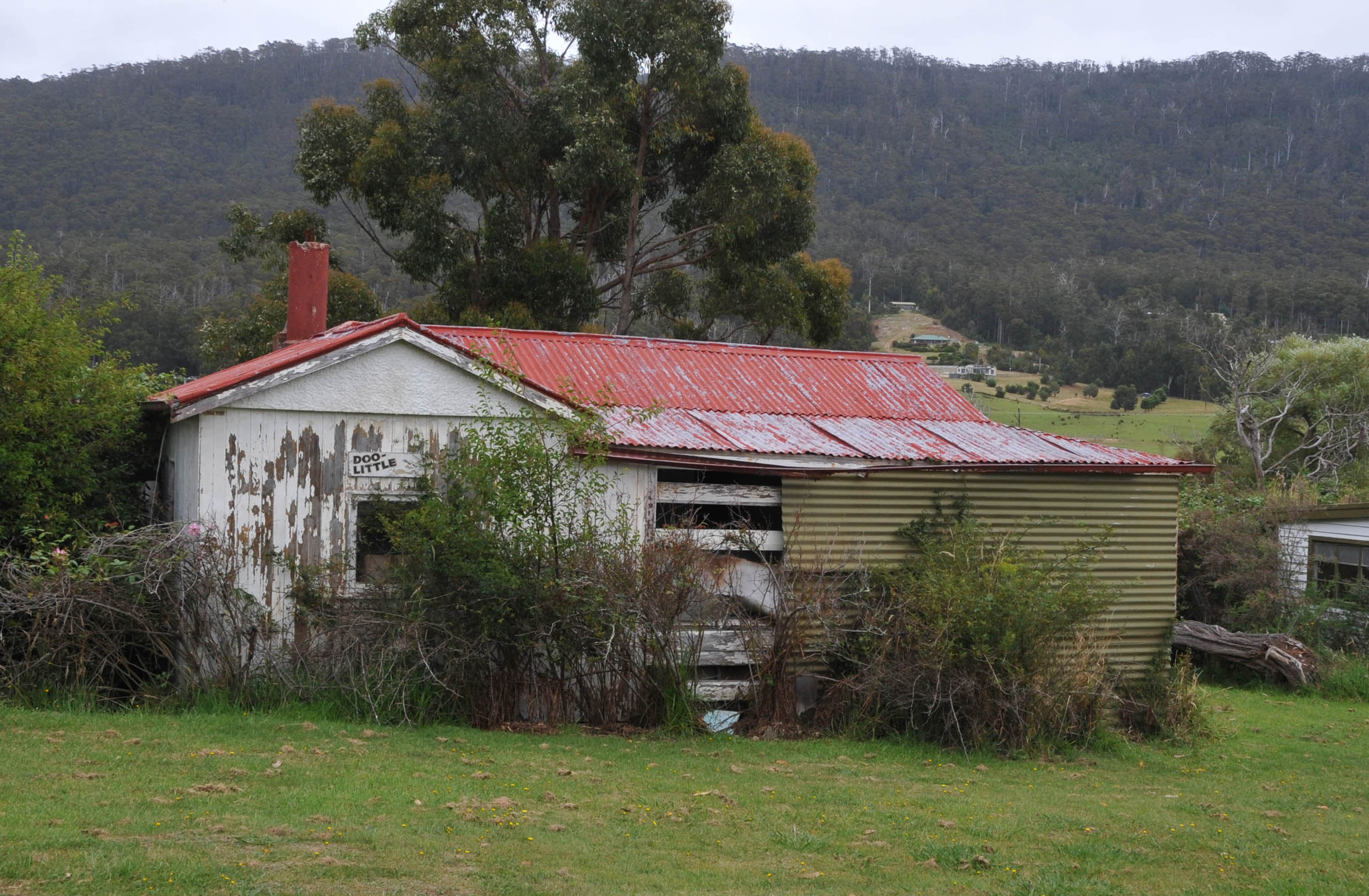 DOO-LITTLE IN DOO TOWN; ALL HOUSES USE THE WORD DOO IN THEIR TITLE; SOME ARE RUN DOWN SHACKS BUT OTHERS ARE KEPT UP AND LIVED IN. SEE "DOO TOWN, TASMANIA" ON WIKIPEDIA